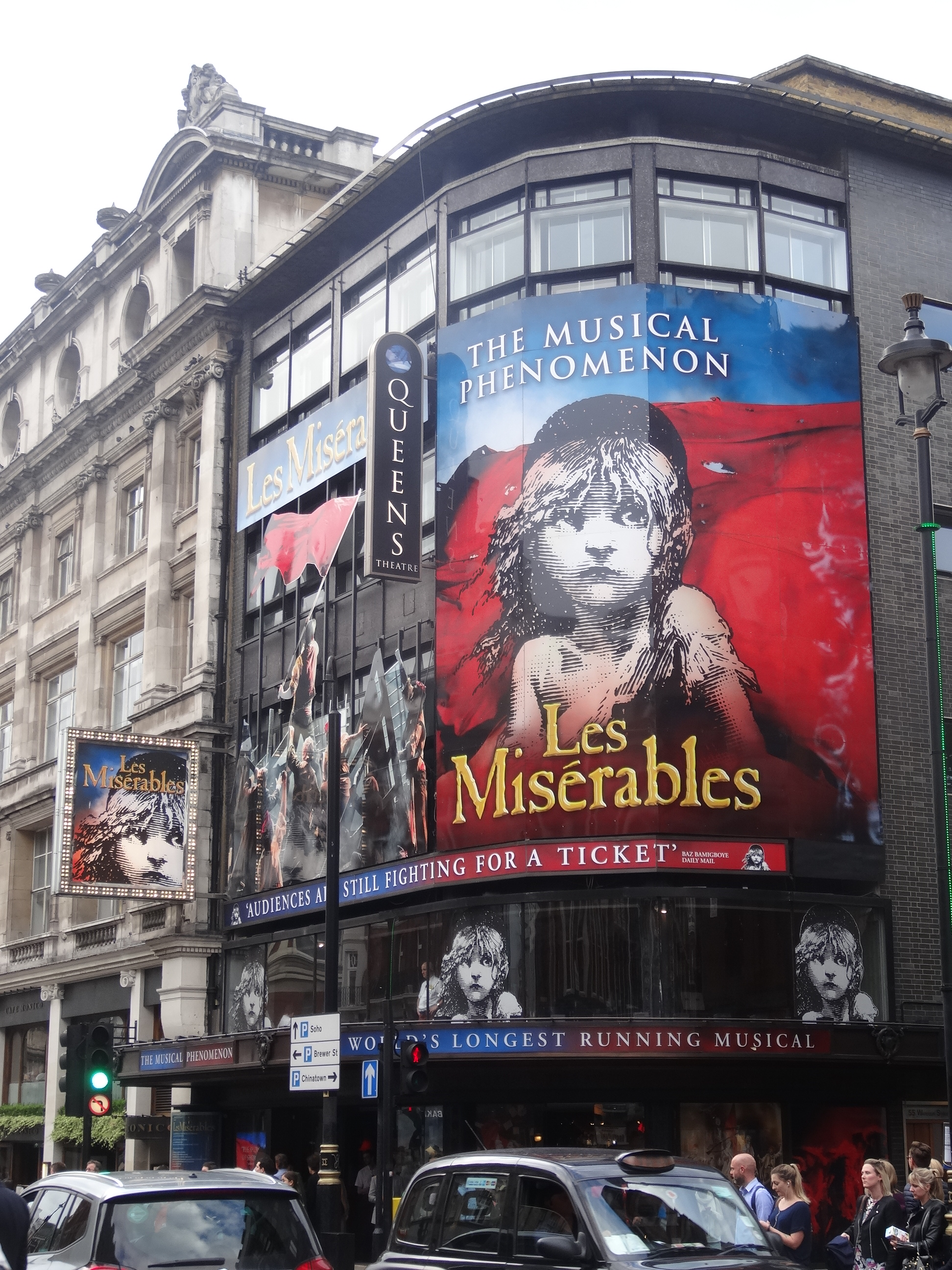 Queen's Theatre, London